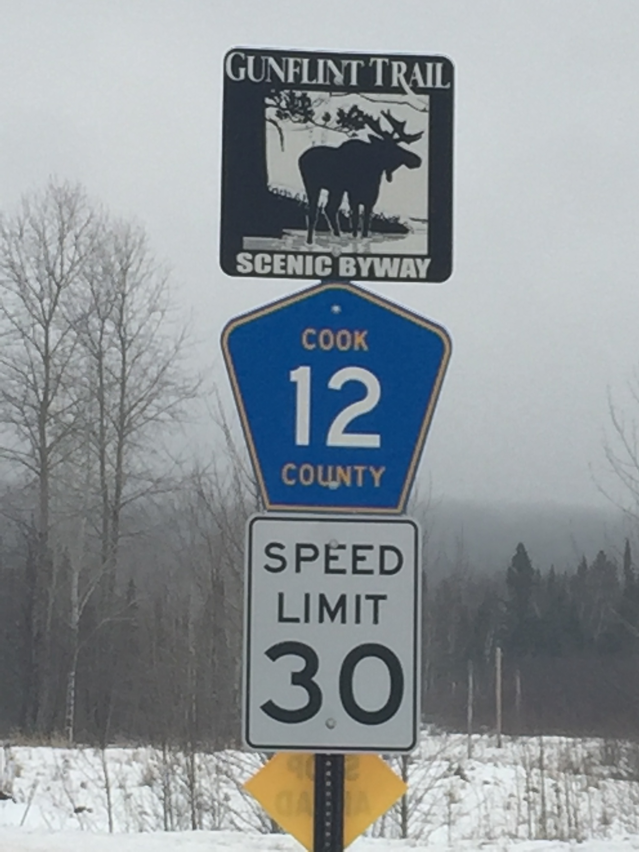 A sign assembly at the start of the Gunflint Trail.